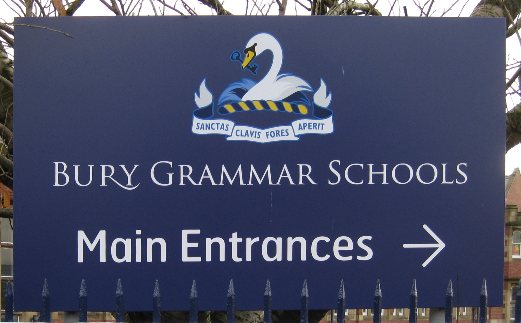 Sign for Bury Grammar Schools with crest showing swan and key, motto SANCTAS CLAVIS FORES APERIT